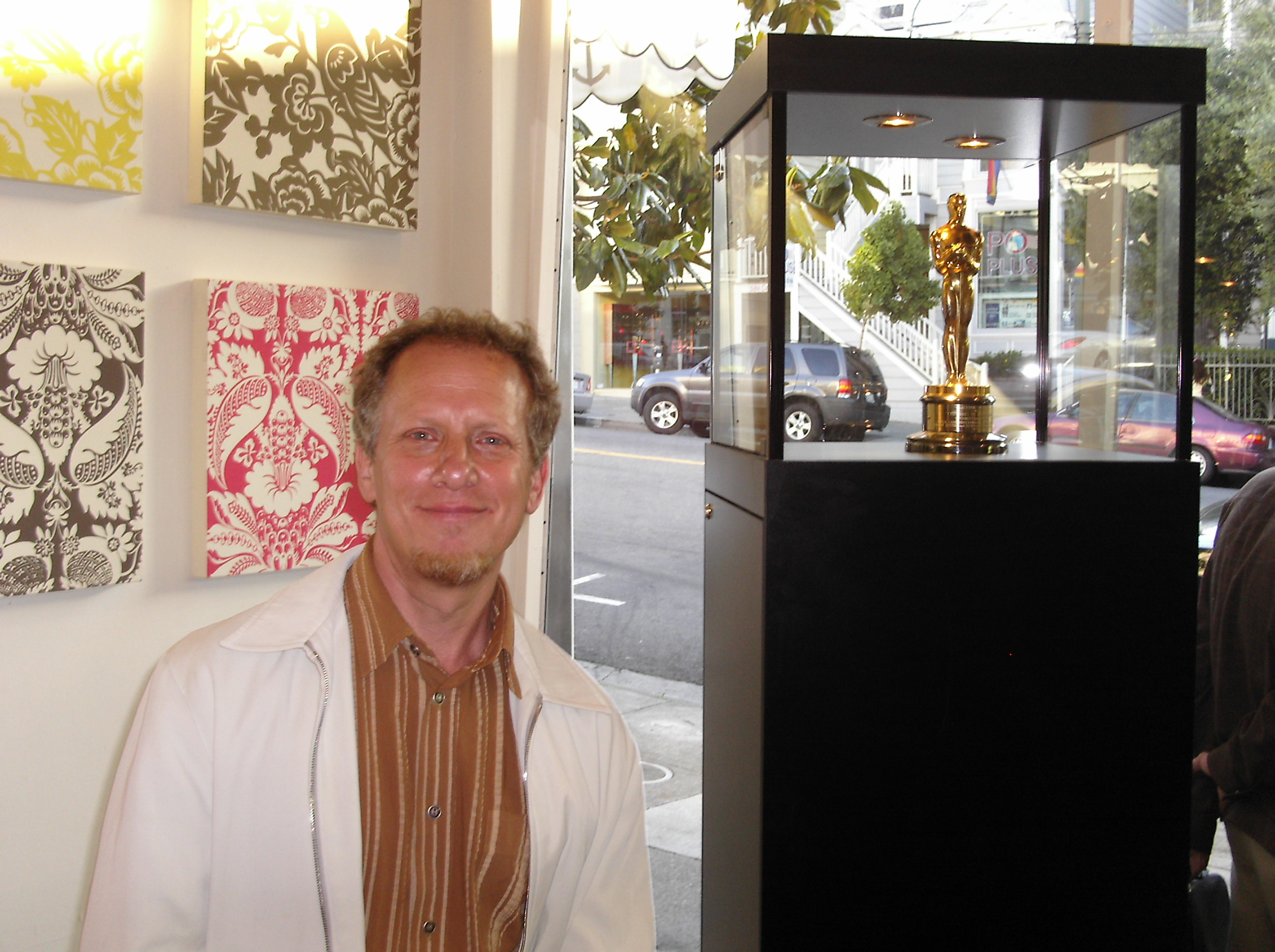 This was the party for what would have been Harvey's 77th birthday, Given Gifts, 275 Castro. You may use this photo as long as you credit "Strange de Jim